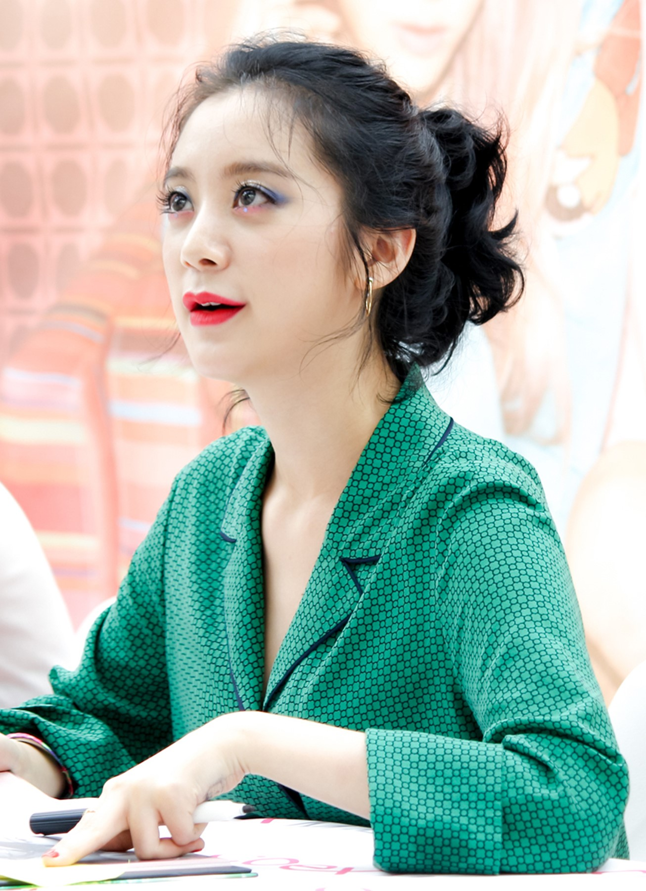 Woo Hye-rim at a fanmeet on July 15, 2016.